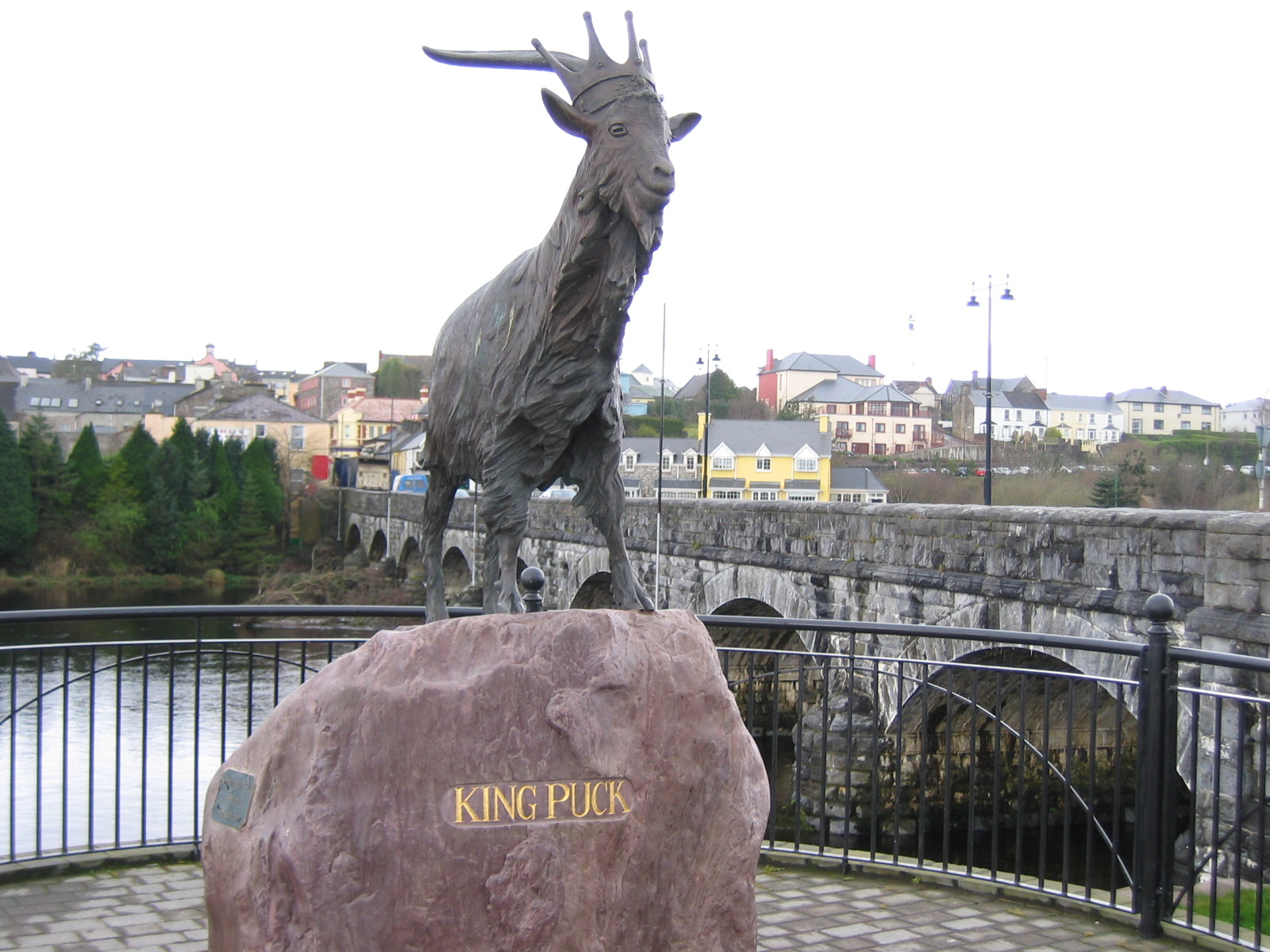 King Puck statue in Killorglin, County Kerry, Republic of Ireland